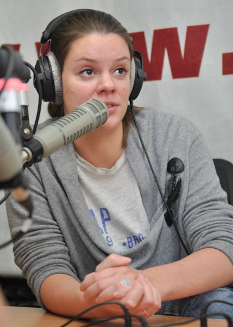 Vera Polozkova, Russian poet.